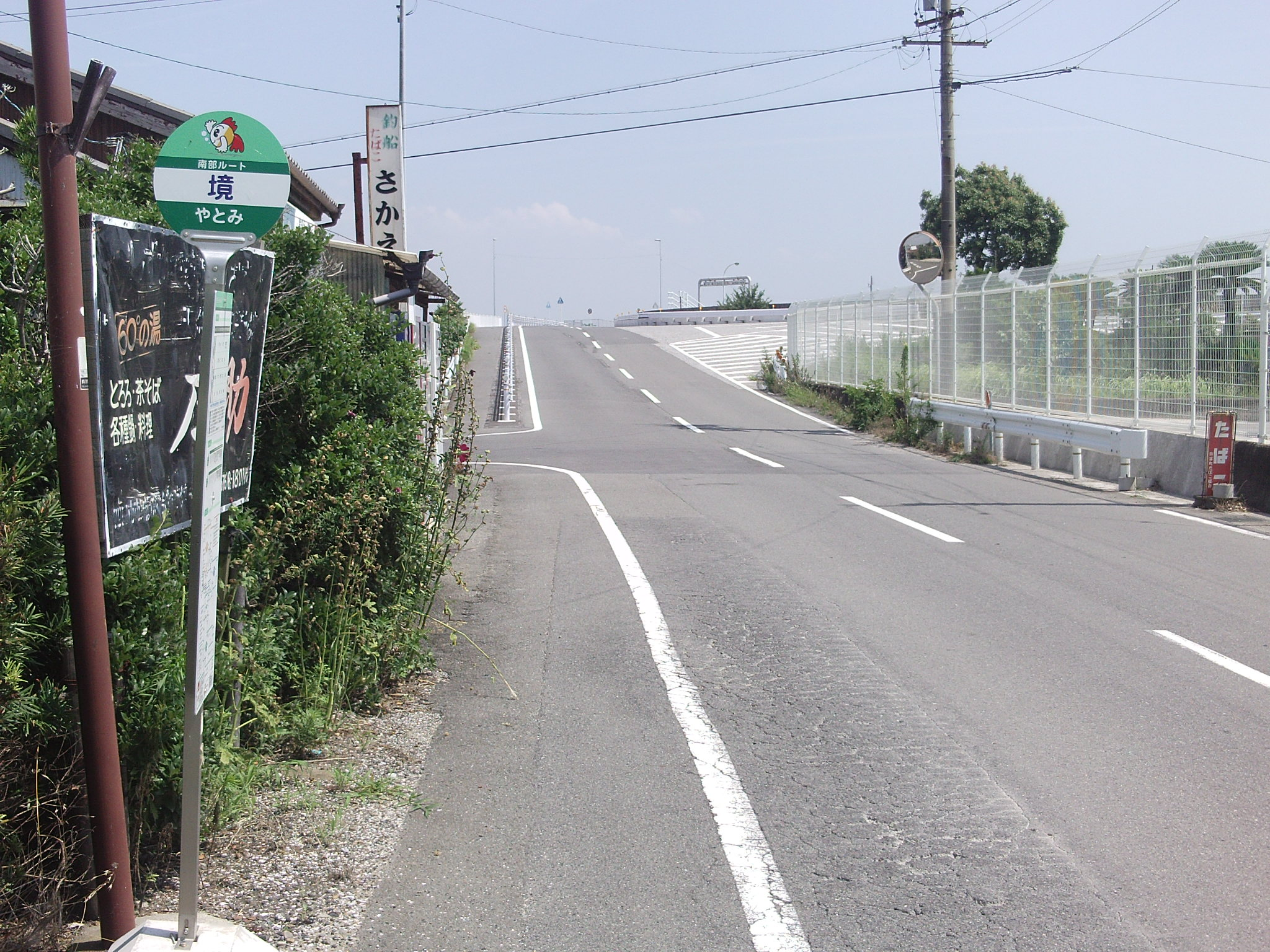 Aichi prefectural road No.103 in Sakaicho, Yatomi, Aichi. Sakai bus stop.